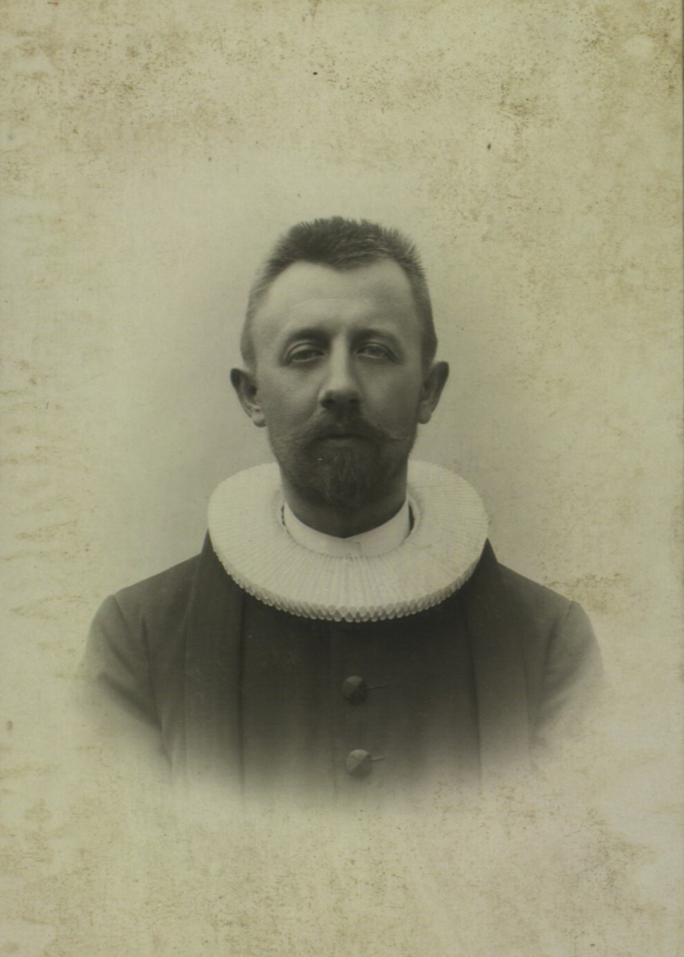 Niels Peter Lorentsen Dahl (1869-1936), Danish priest and politician, MP, Minister of Ecclesiastic Affairs